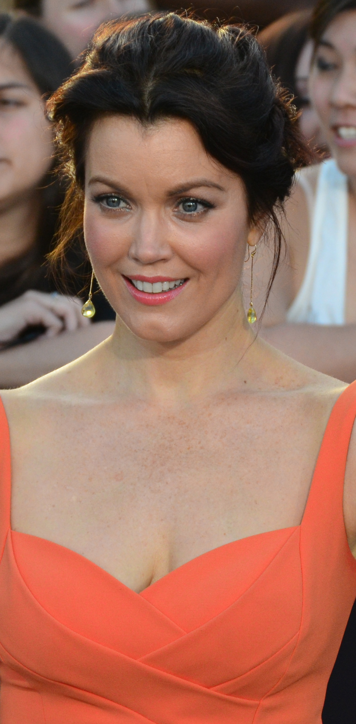 Bellamy Young by Mingle Media TV's Red Carpet Report team were invited to cover the Divergent Premiere Red Carpet at the Regency Bruin Theatre in Westwood, CA. Fans were lined up along the red carpet with signs filled with excitement for this movie which will be in theaters and IMAX March 21.